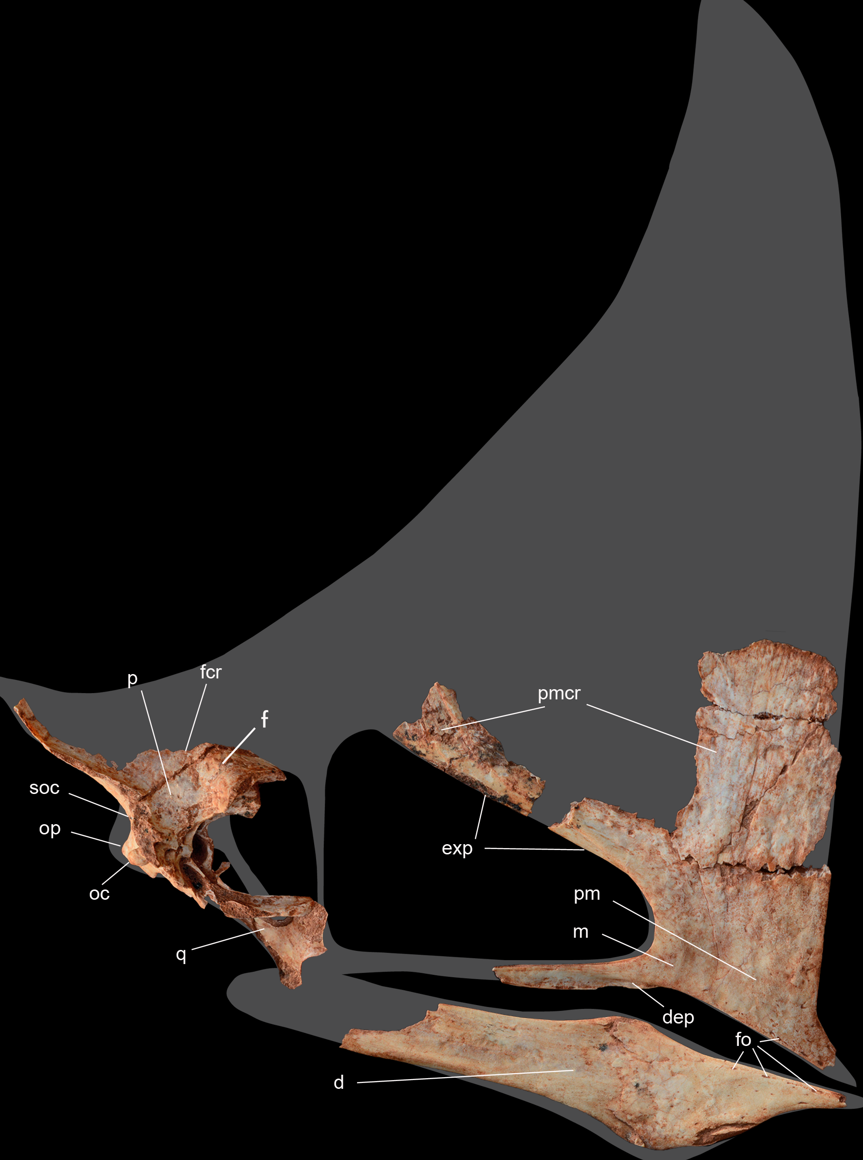 Skull of Caiuajara dobruskii gen. et sp. nov. (holotype, CP.V 1449) with the shape of an adult individual. Scale bar equals 50: d, dentary; dcr, dentary crest; dep, depression; exp, ventral expansion of the premaxilla; f, frontal; fcr, frontal crest; fo, foraminae; m, maxilla; oc, occipital condyle; op, opisthotic; p, parietal; pm, premaxilla; pmcr, premaxillary crest; q, quadrate; soc, supraoccipital. The quadrate is inverted.